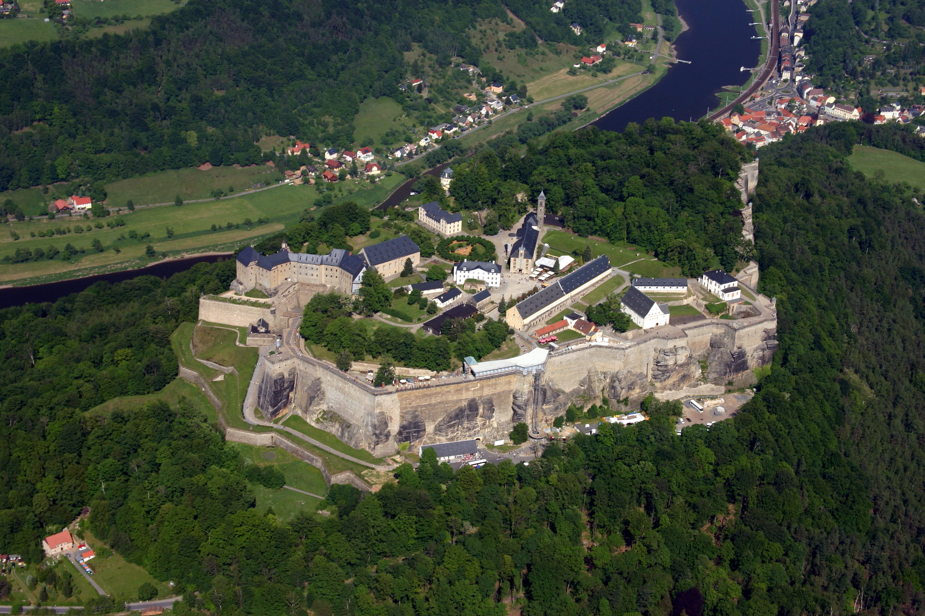 Aereal photo of the Festung Königstein (Fortress)